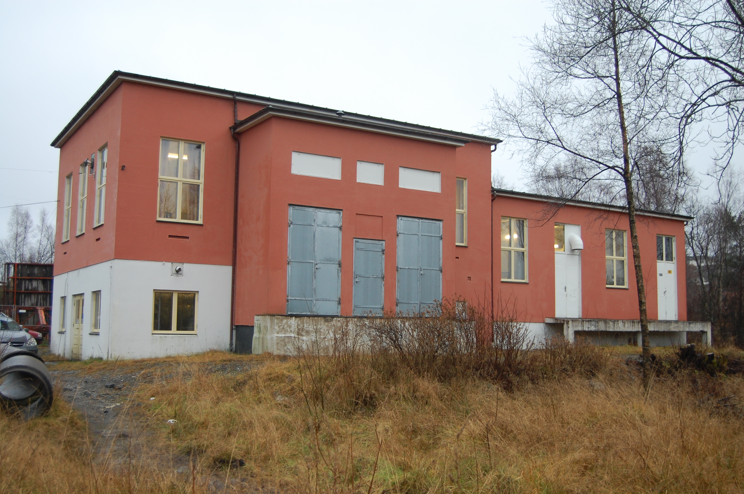 Bergen kringkaster, Frudalsmyrene, Grensedalen, Erdal, Askøy kommune, Norway.